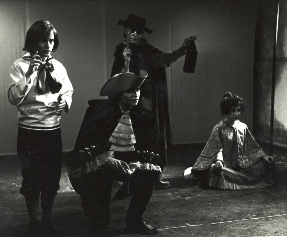 Production photo from the play The Water Hen by Witkacy.